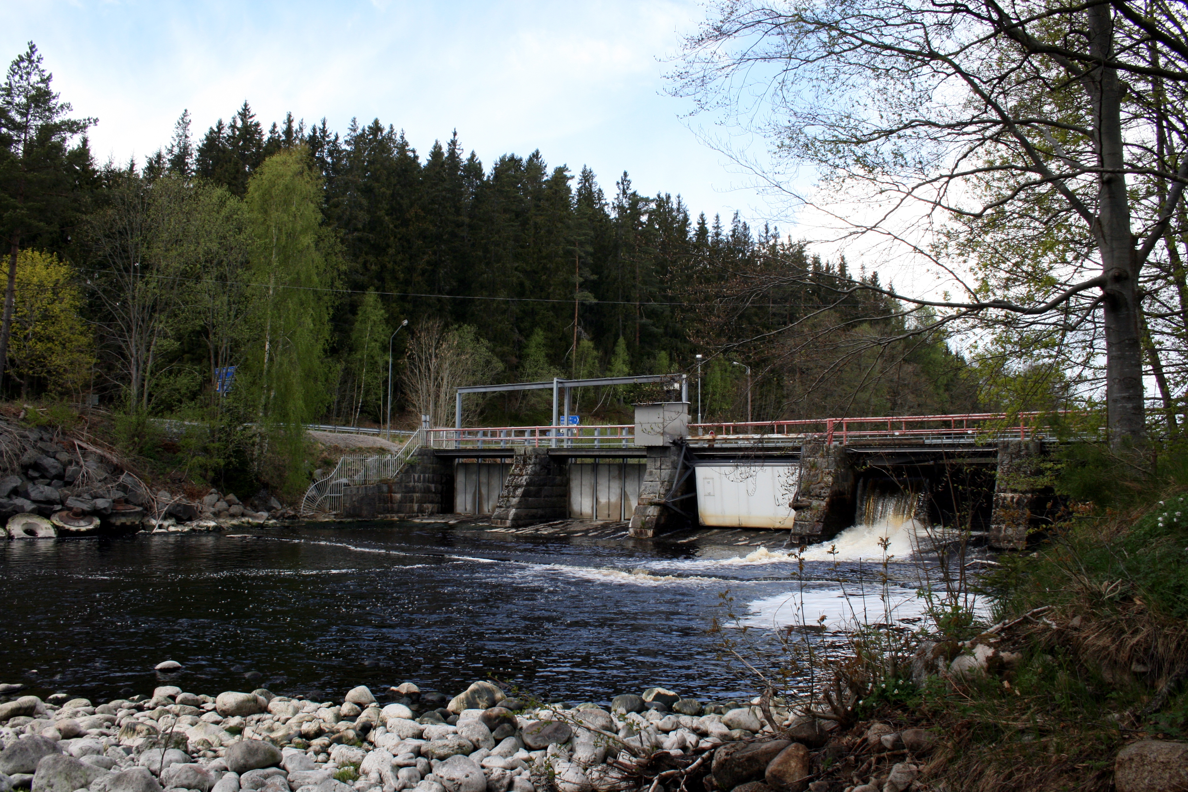 Hydroelectric power plant in Fridafors, Sweden